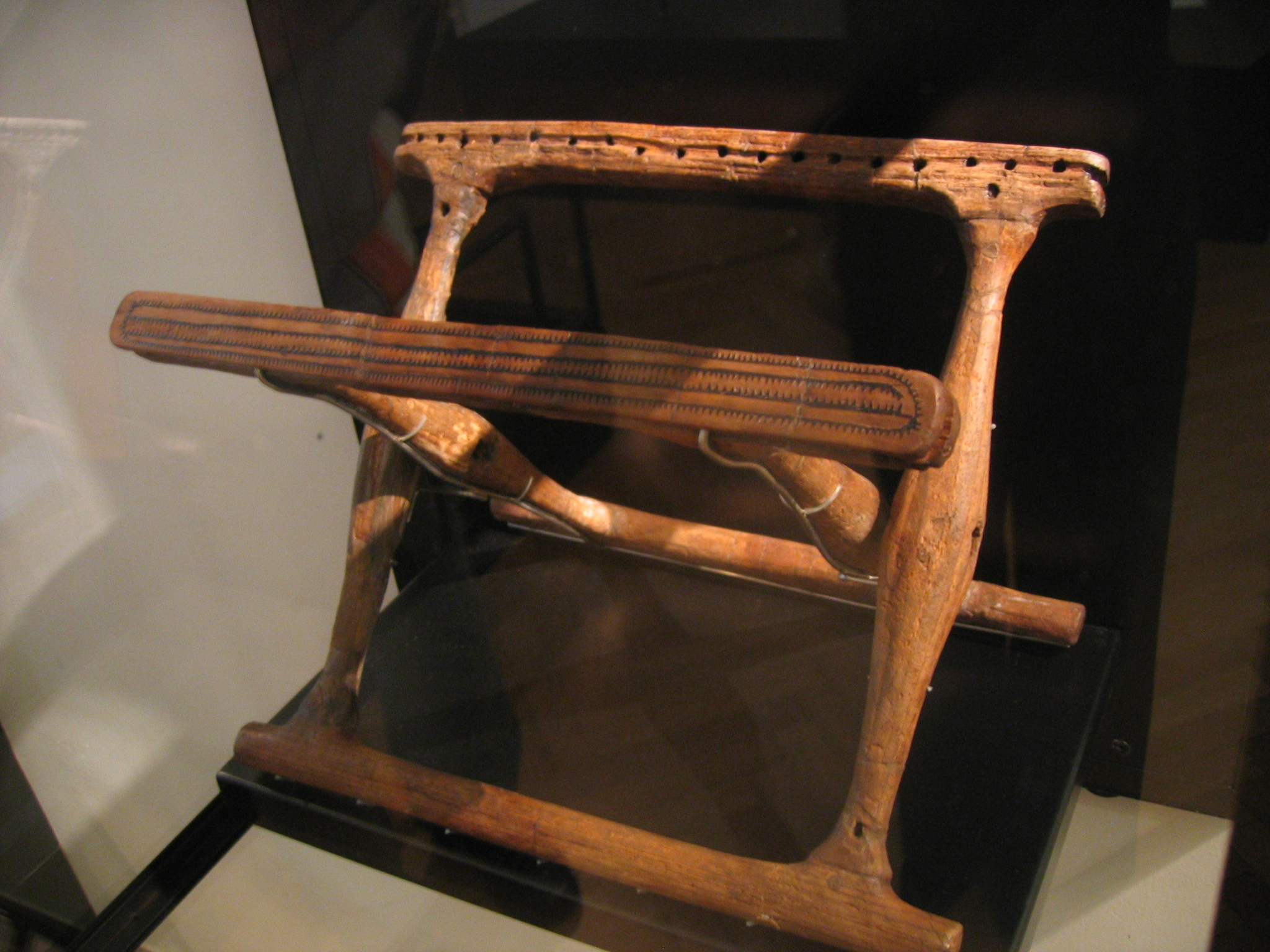 Folding chair of Guldhøj, survived wooden fragments, found in 1891 in Guldhøj near Vamdrup, Kommune Ribe, Denmark. Nationalmuseum of Denmark, Copenhagen, Denmark. Dating to Nordic Bronze Age, 2nd half of 14th century B.C.